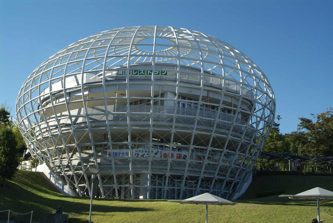 Fruit Museum and Garden Yamanashi-pref.,Japan Designed by Itsuko Hasegawa 長谷川逸子 1997 Engineering Ove Arup and Partners Fuji Finepix S3pro